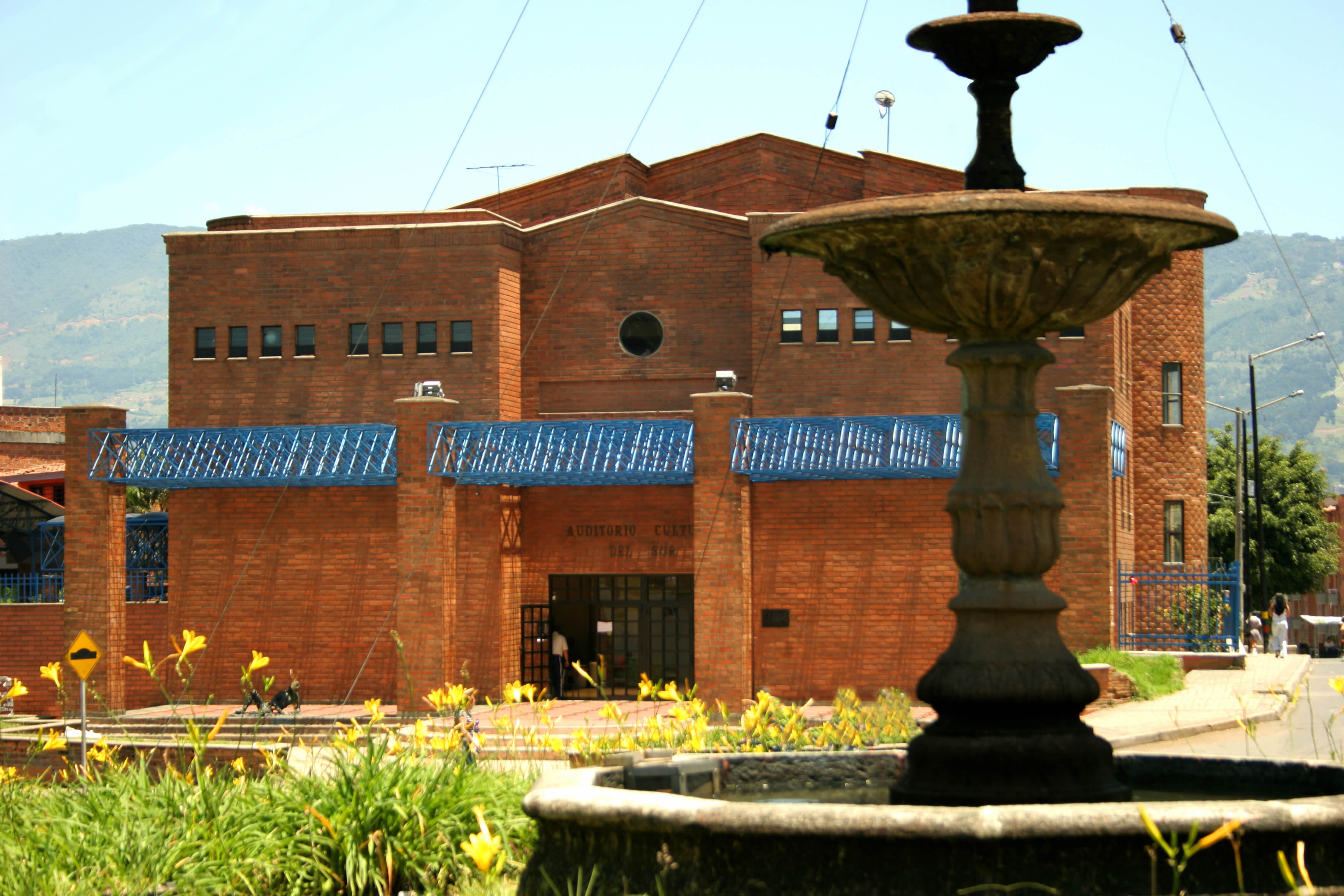 Teatro del sur - Itagui